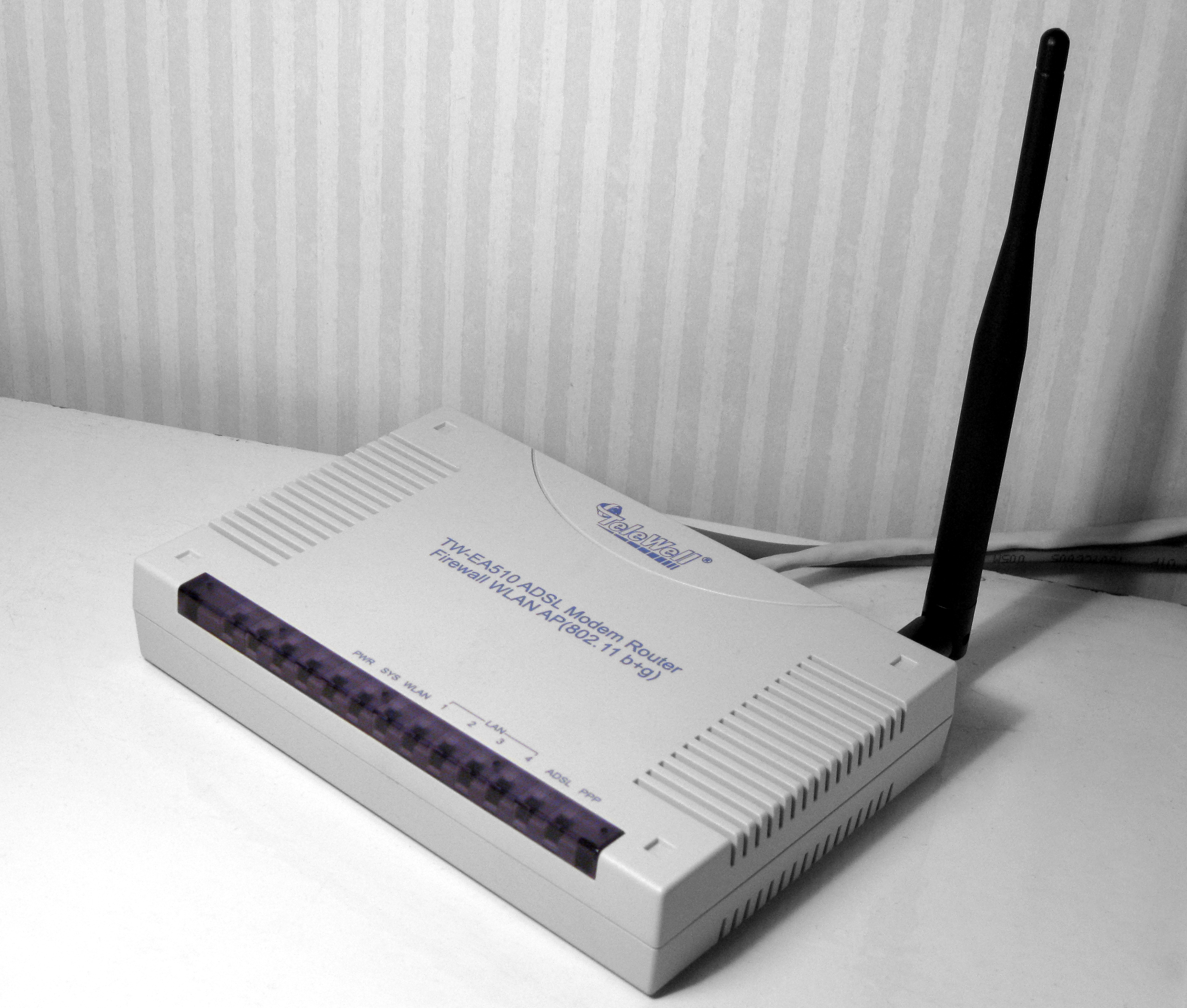 TeleWell TW-EA510 ADSL modem.